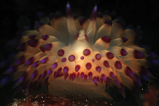 Janolus Sp taken in Anilao Philippines